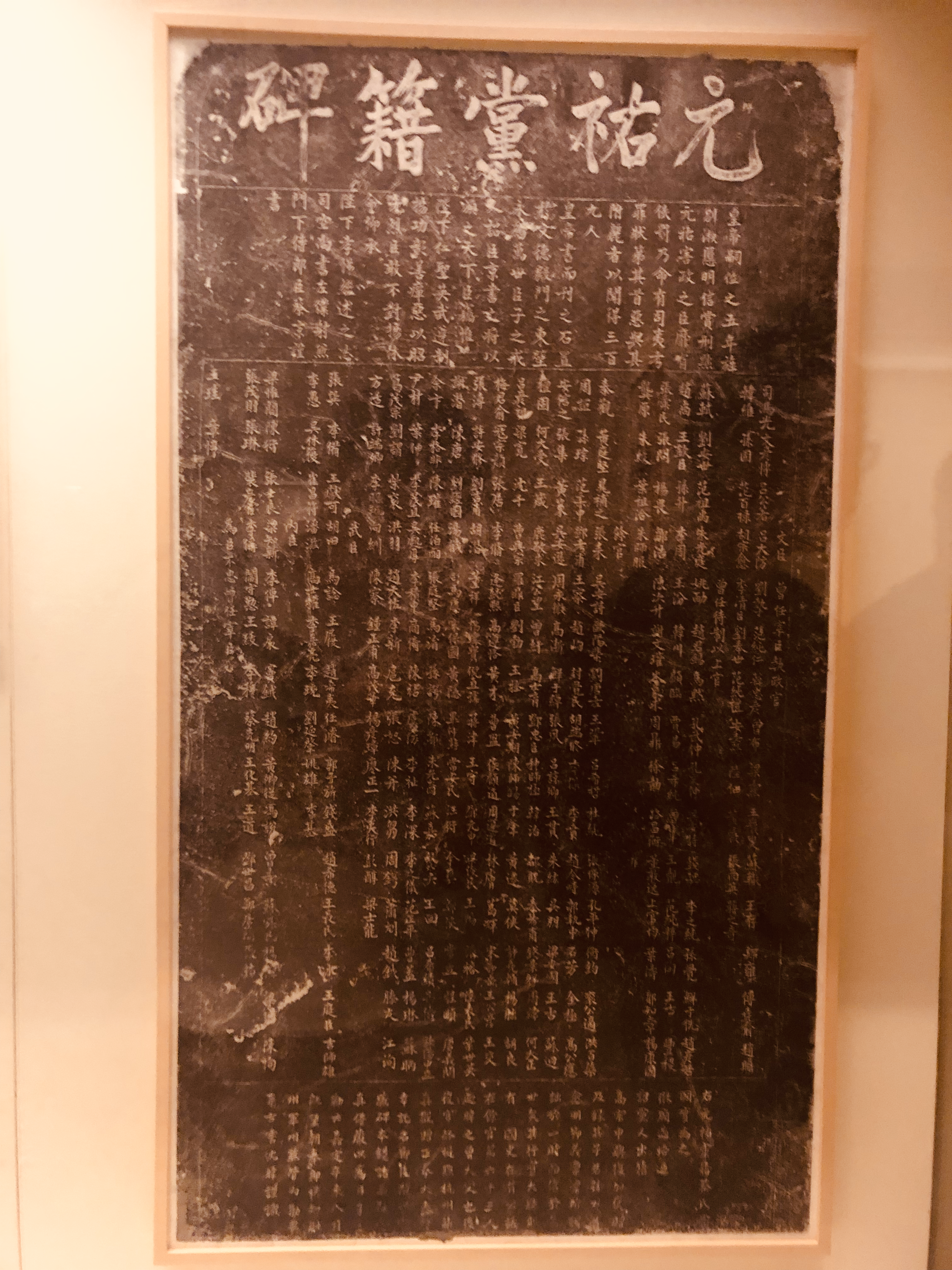 Literally Yuanyou Party Stele, which documented who were against New Policies (Song dynasty) during Yuanyou Period(1086-1094).